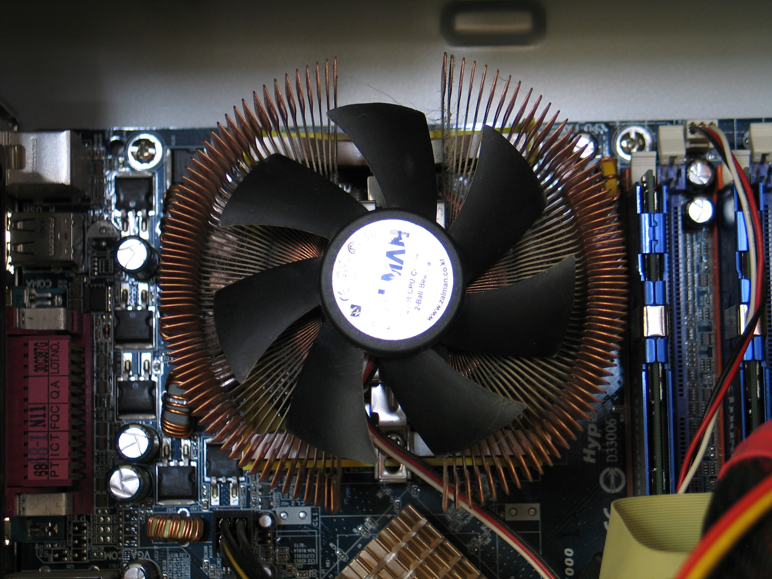 An oversized copper CPU fan to reduce airflow noise. The processor is a Pentium 4 Northwood. The heatsink is a Zalman CNPS7000C-Cu.